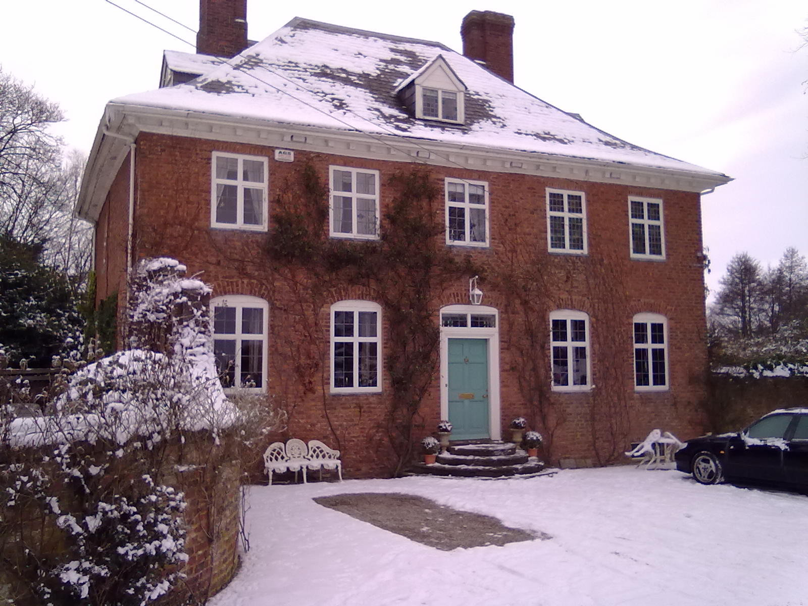 The Old Rectory, Llanfair Dyffryn Clwyd near Rhuthun (Ruthin), Wales